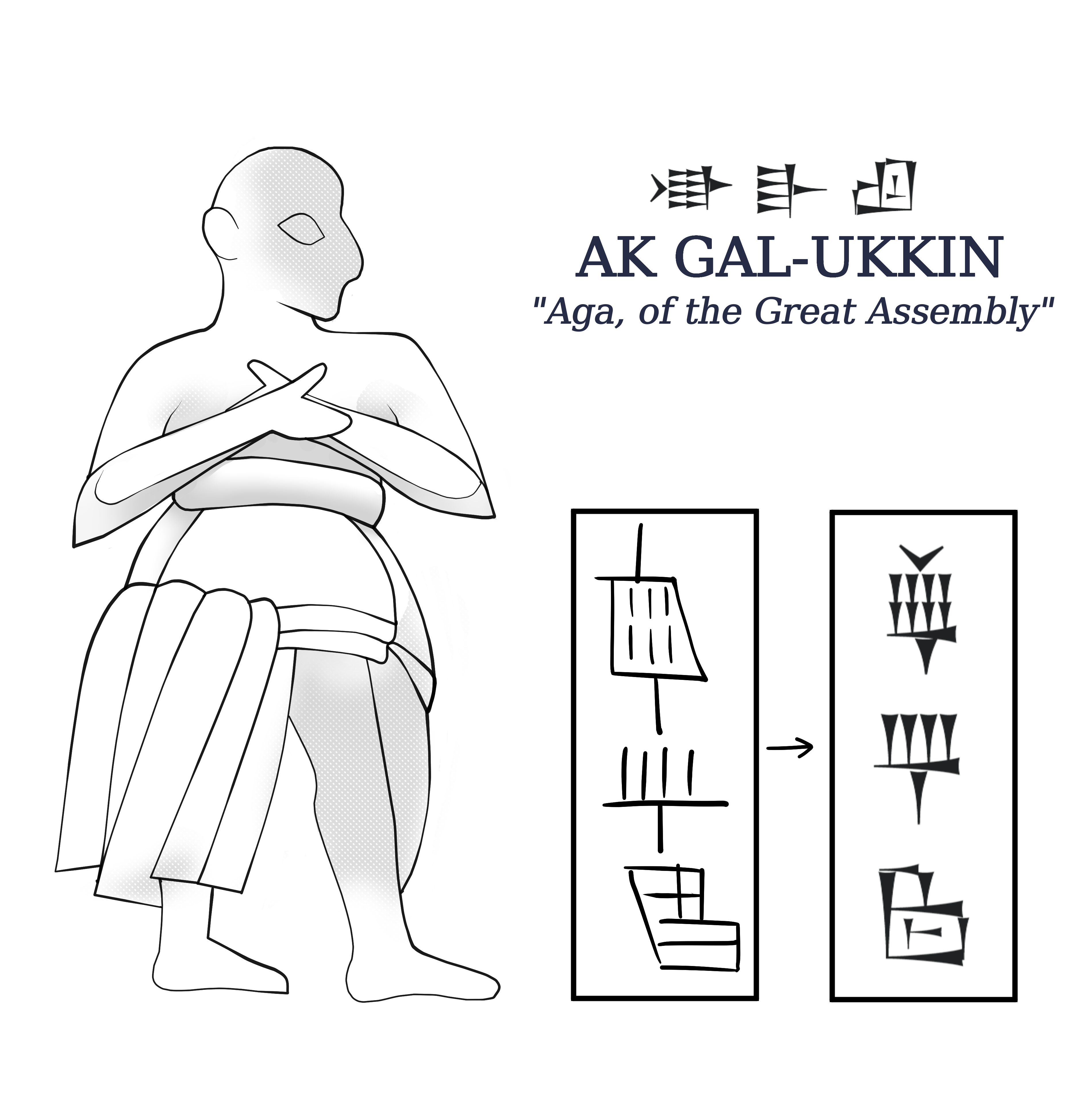 Line art of Aga of Kish from the Stele of Ushumgal, transliteration and translation.